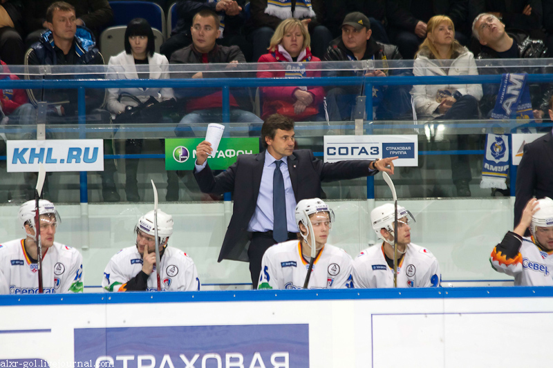 KHL game Amur Khabarovsk vs. Severstal Cherepovets on October 16, 2011. HC Severstal head coach Dmitri Kvartalnov.